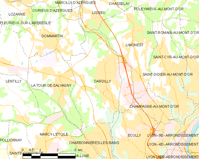 Map of French municipality